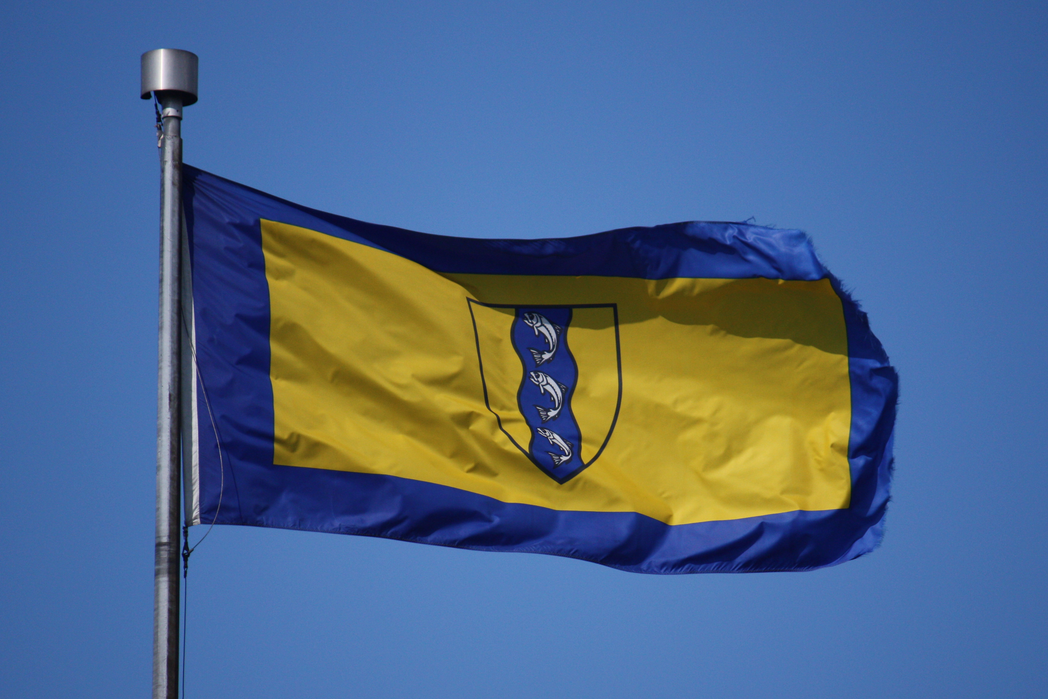 The flag of the city of Richmond, British Columbia, Canada, flying at Vancouver International Airport